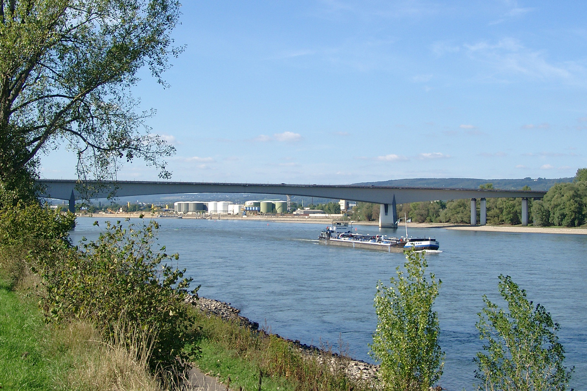 Bendorf bridge near Koblenz